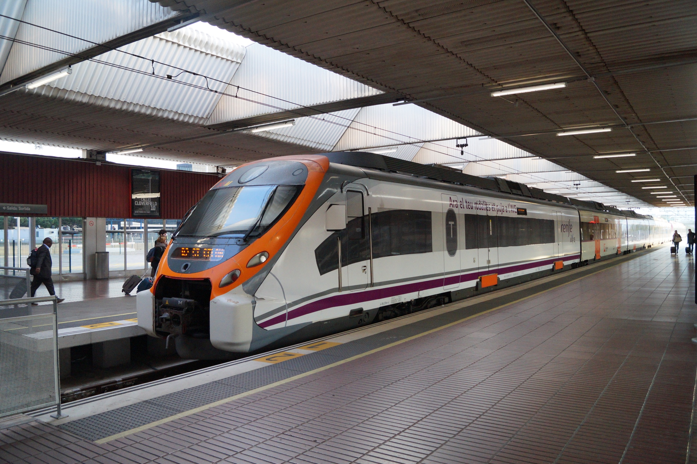 serie 465 at Barcelona airport station